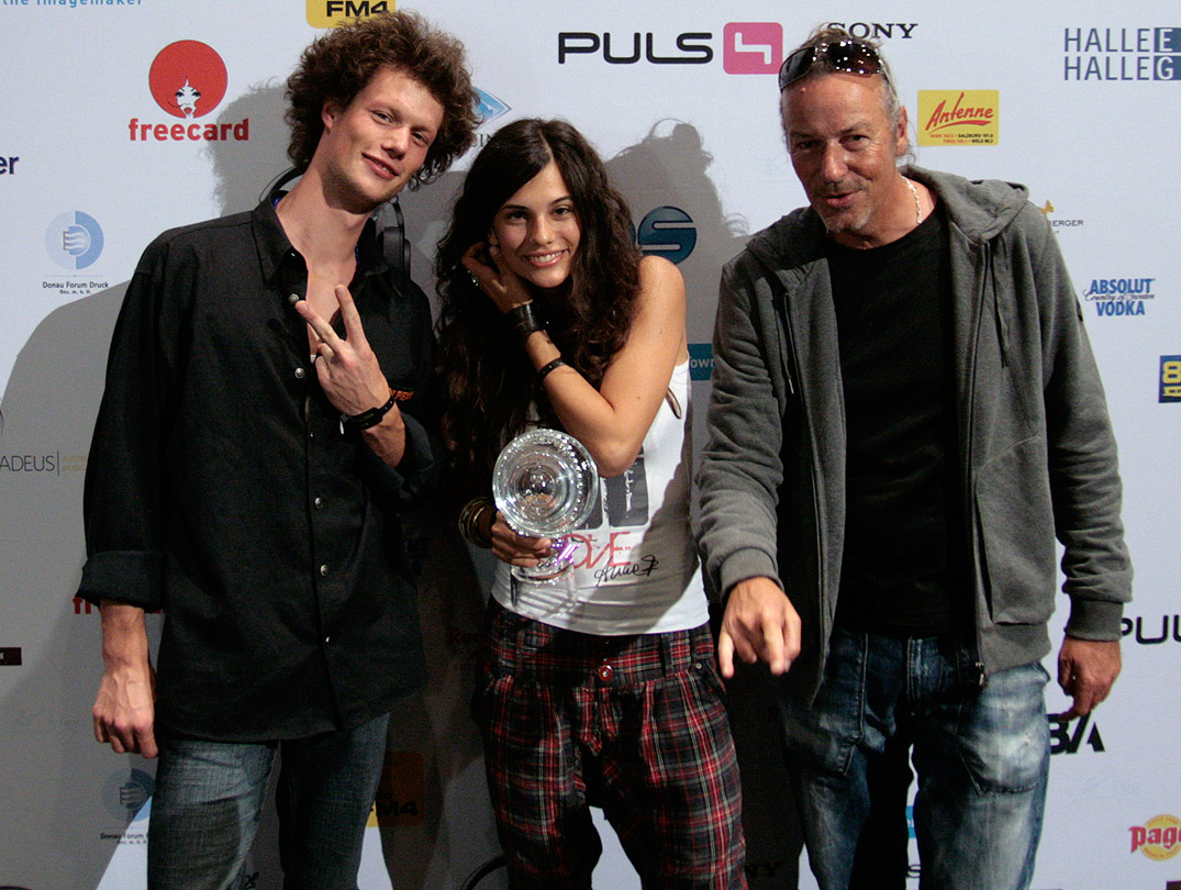 Anna F. at the Amadeus Austrian Music Award (Museumsquartier, Vienna)